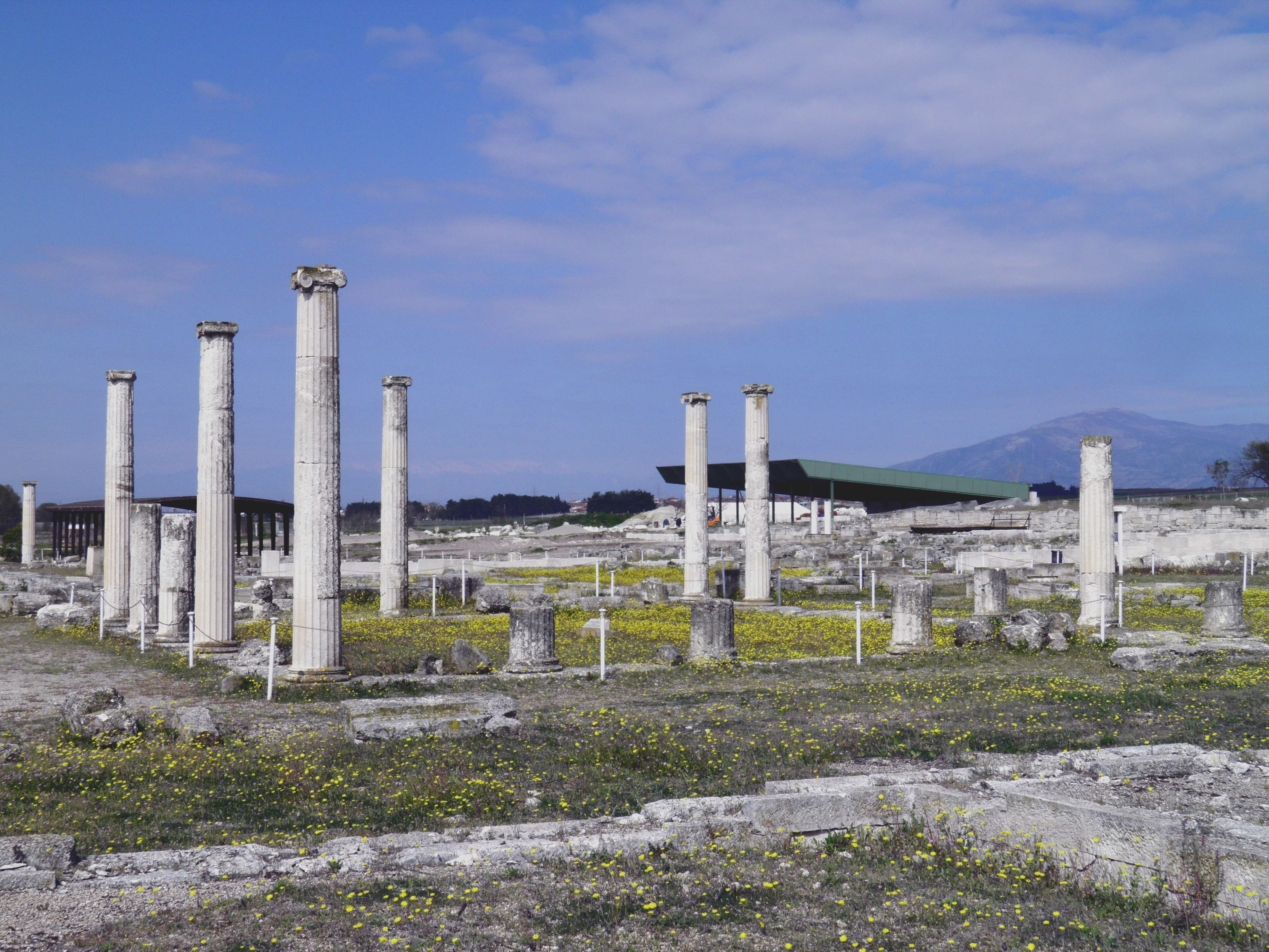 The main courtyard of the House of Dionysos, built in 325-300 BC, Ancient Pella